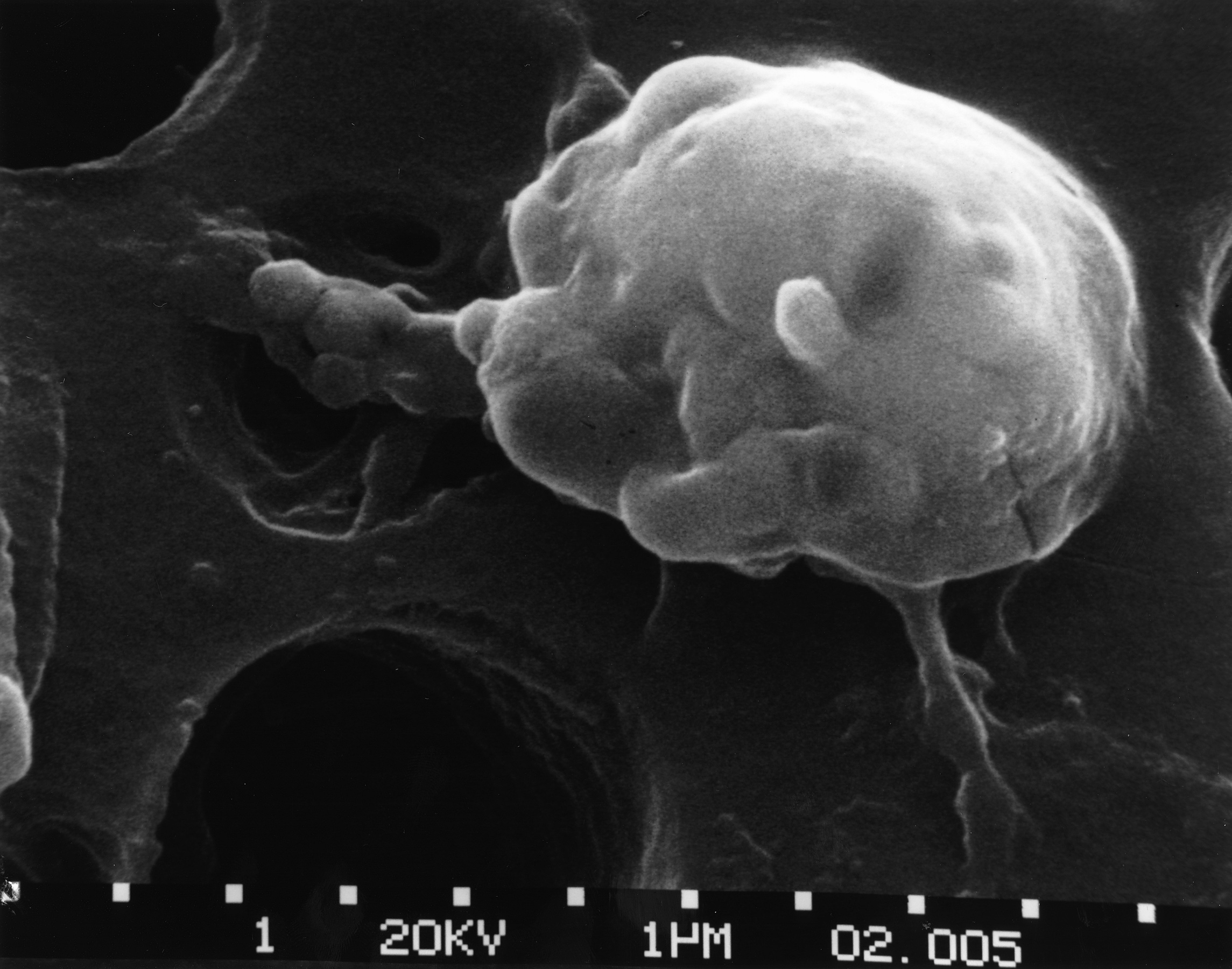 Title Cancer Cells: Death (Step 5) Description Step-five of a six-step sequence of the death of a cancer cell. A cancer cell has migrated through the holes of a matrix coated membrane from the top to the bottom, simulating natural migration of a invading cancer cell between, and sometimes through, the vascular endothelium. The cancer cell appears lumpy in the last stage before it dies. These lumps are actually the macrophages fused within the cancer cell (step 5). Photo magnification: x56,000. Topics/Categories Cells or Tissue, Abnormal Cells or Tissue Type B&W, Photo Source Dr. Raowf Guirguis. National Cancer Institute